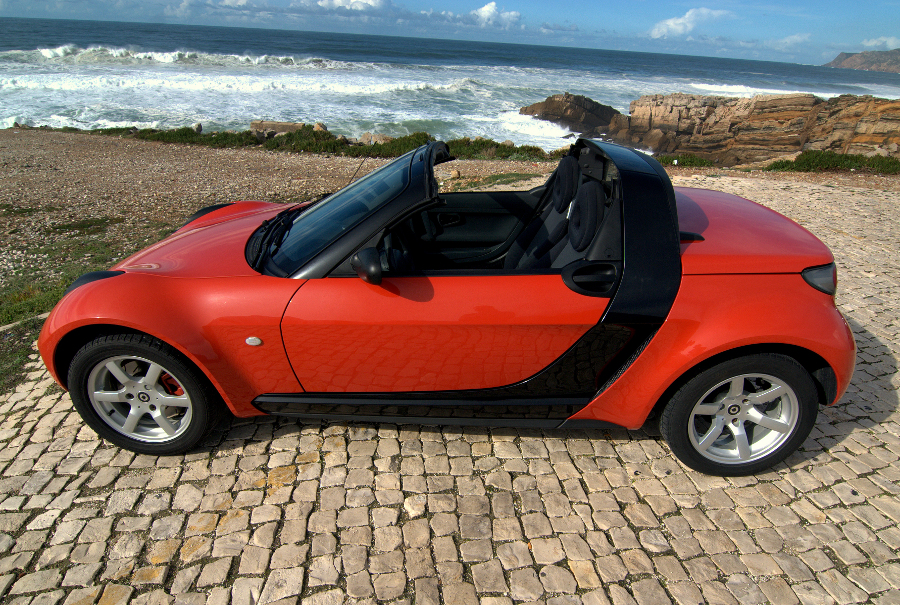 Smart Roadster 2003 Red/Black in Portugal (Cascais)